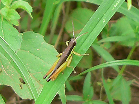 Male of Spathosternum pygmaeum grasshopper photographed by Christiaan Kooyman near Dogbo, Benin, on 30 October 2005.